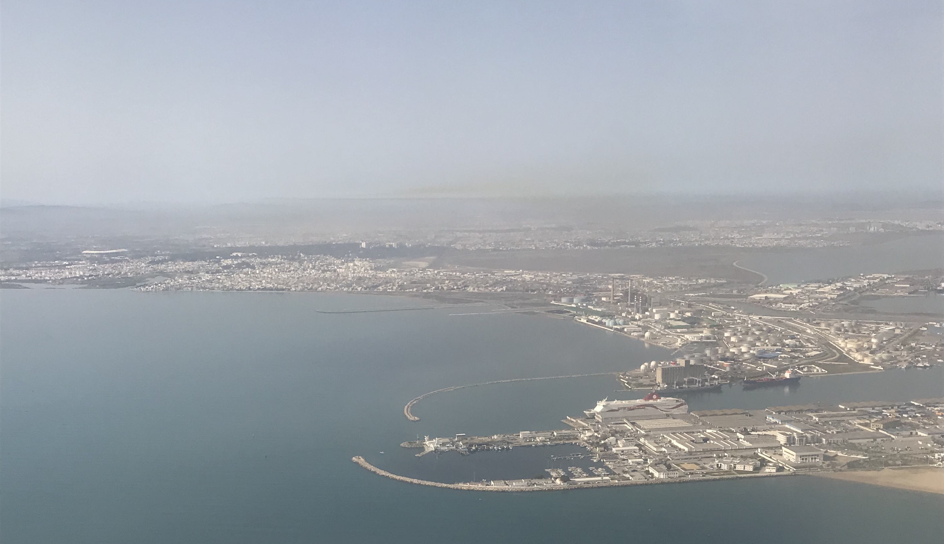 Aerial photograph of Tunis in March 2018.